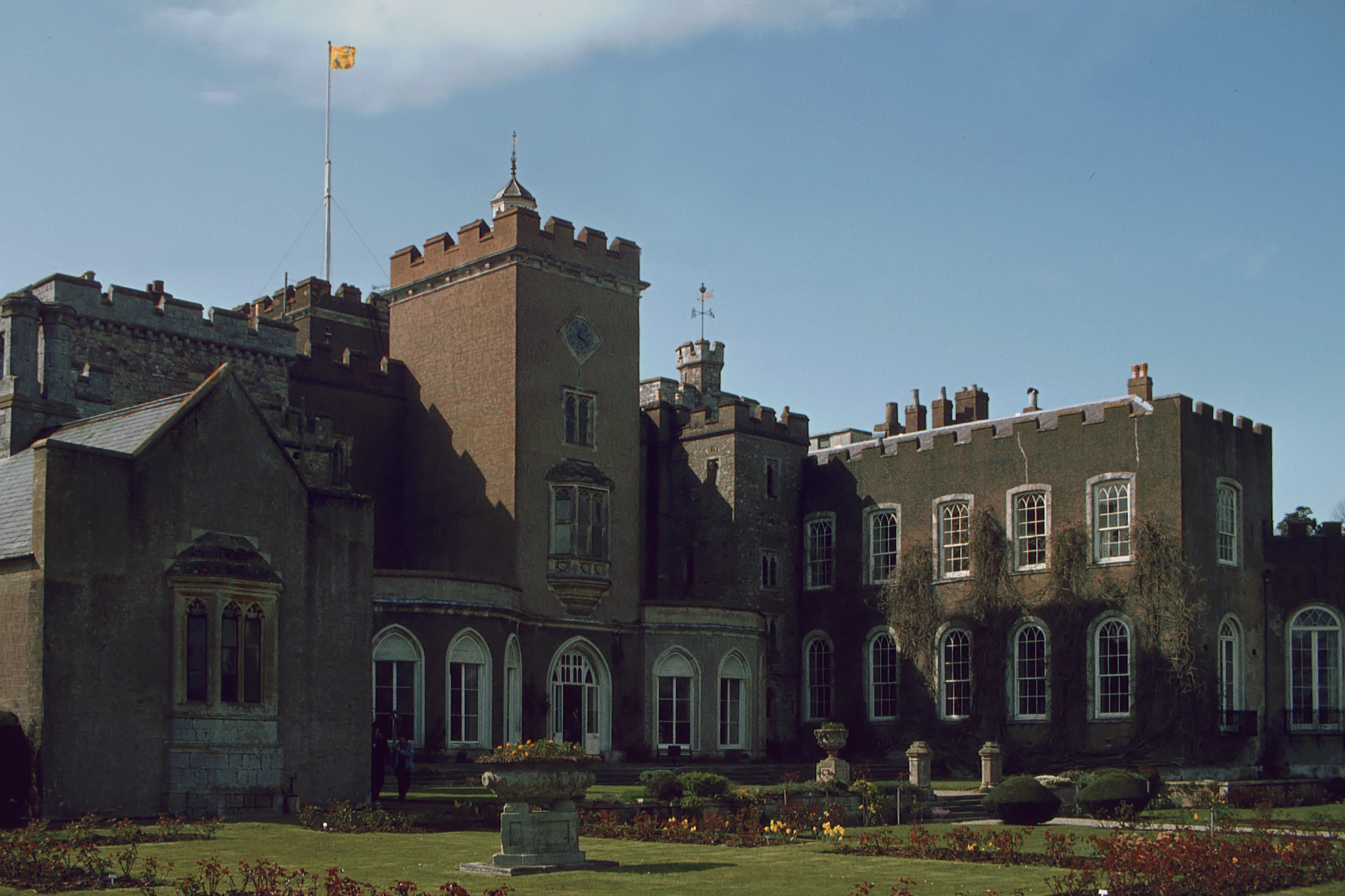 Powderham Castle in Devon/England, east side